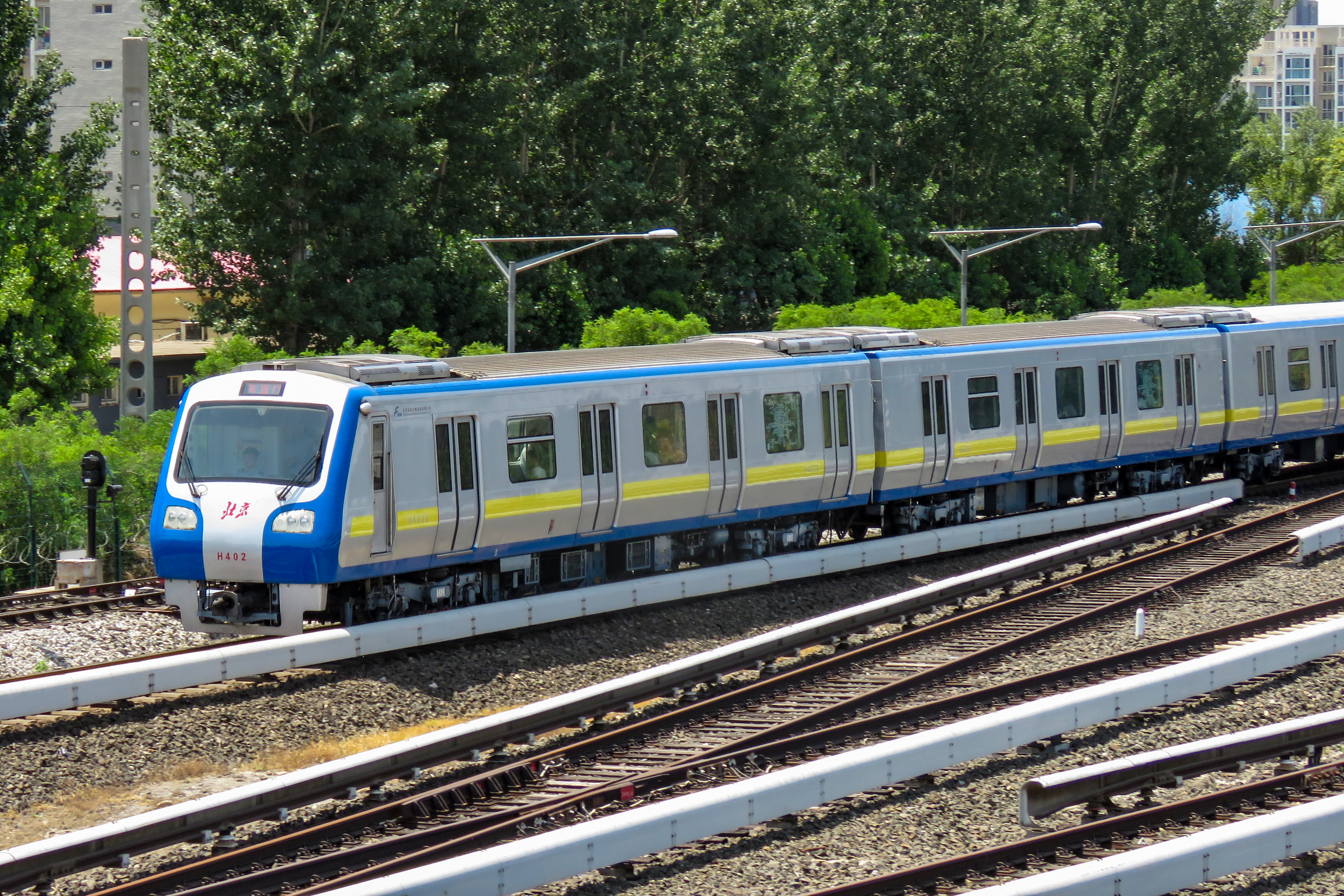 Formerly the "black cat", it's the only DKZ6 (stainless steel body) in Line 13 fleet.